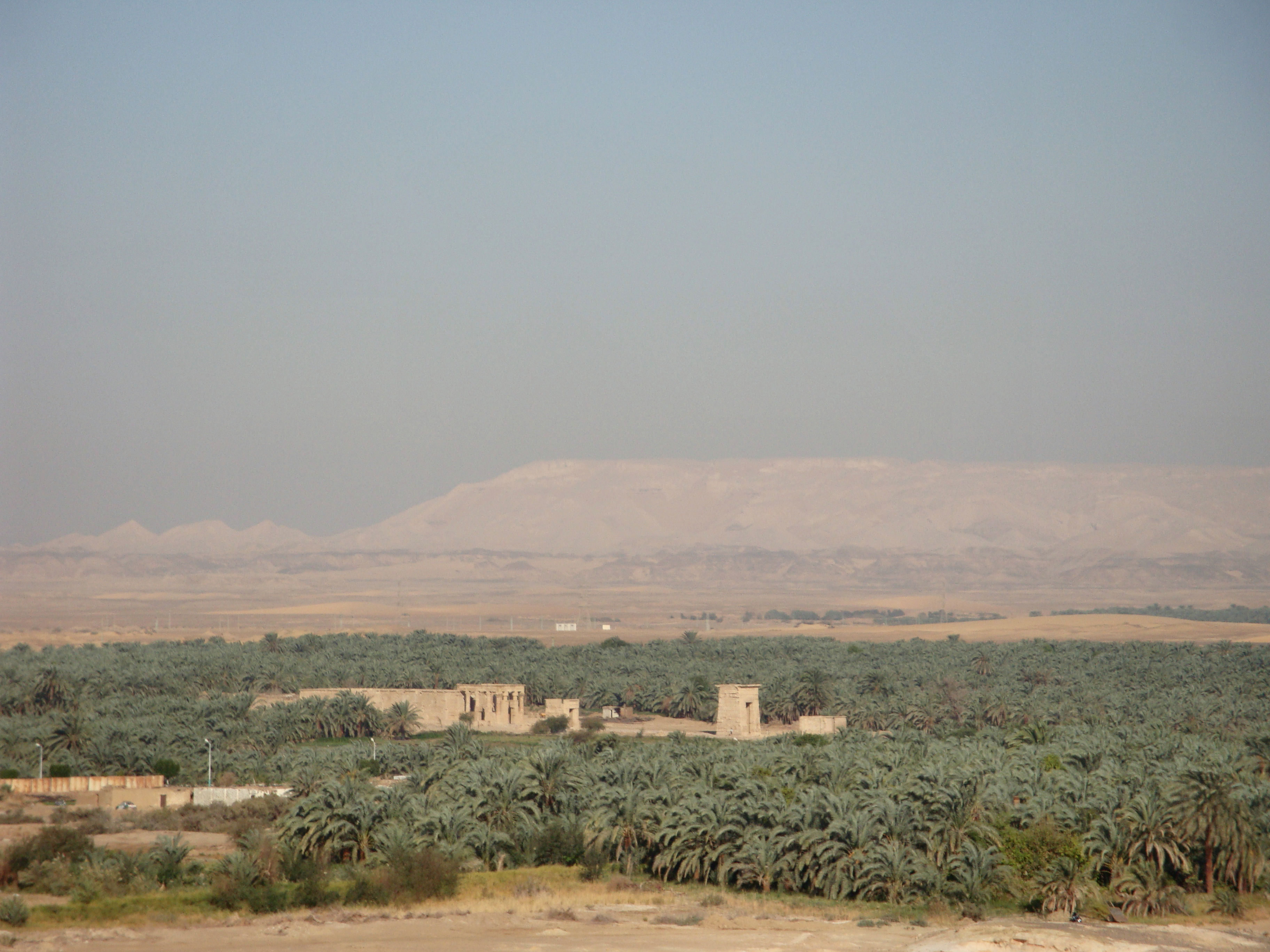 Kharga Oasis in the Libyan desert is the largest oasis known to exist in Western Egypt. It is located about 200 kilometres west of the Nile Valley. Kharga Oasis is also well known for featuring the well preserved Temple of Hibis--which was first built by pharaoh Psamtik II of the 26th Saite dynasty and subsequently decorated by the Persian king Darius I--as well as the 3rd to 7th century AD Christian cemetary of El-Bagawat. El-Bagawat is one of the earliest known Christian cemetaries in the world.